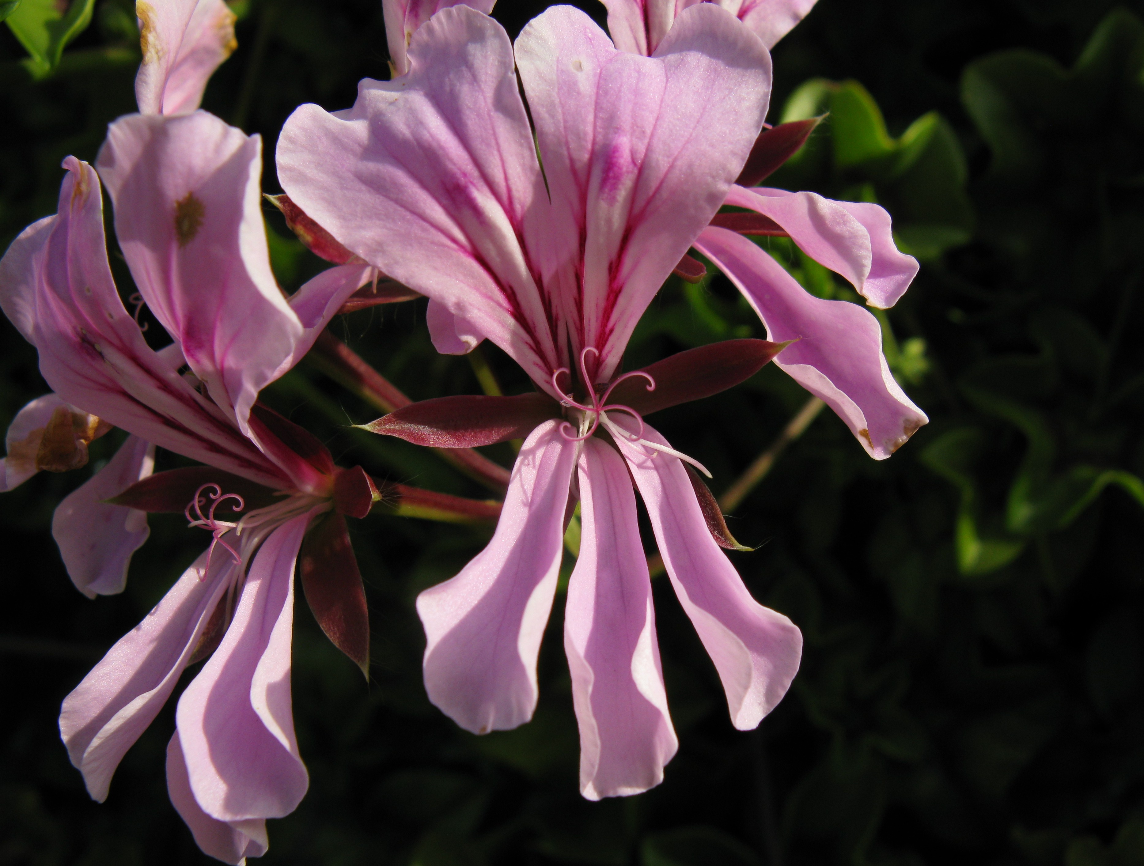 Pelargonium peltatum mature flowers, anthers and most stamens already shed, stigma fully deployed, ready for foreign pollen